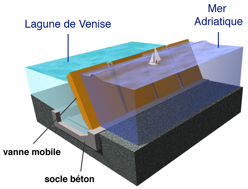 MOSE Project